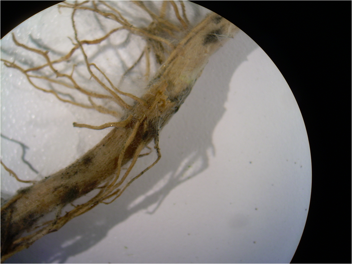 Rhizoctonia solani root rot on corn roots, magnified 0.63X. Identified using Barnett, H. L. & Hunter, B. B. (1998) Illustrated Genera of Imperfect Fungi. APS Press: St. Paul, MN; pp. 196–7 ISBN 0-89054-192-2. Recovered from corn (Zea mays L. var. rugosa). Host status confirmed using Farr, D. F., Bills, G. F., Chamuris, G. P., & Rossman, A. Y. (1995) Fungi on Plants and Plant Products in the United States. APS Press: St. Paul, MN; pp. 428–33 ISBN 0-89054-099-3.